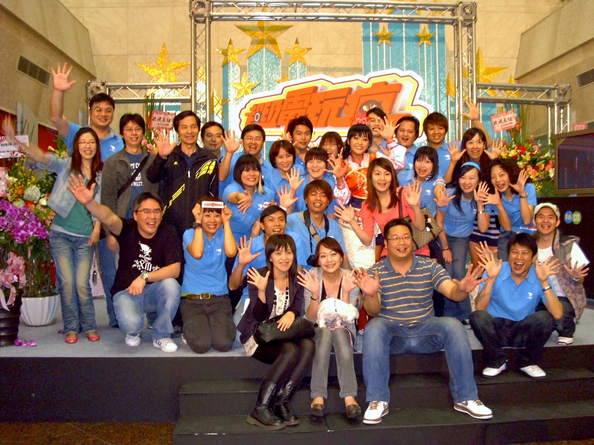 CTS "Super Game Crazy" Press Conference.